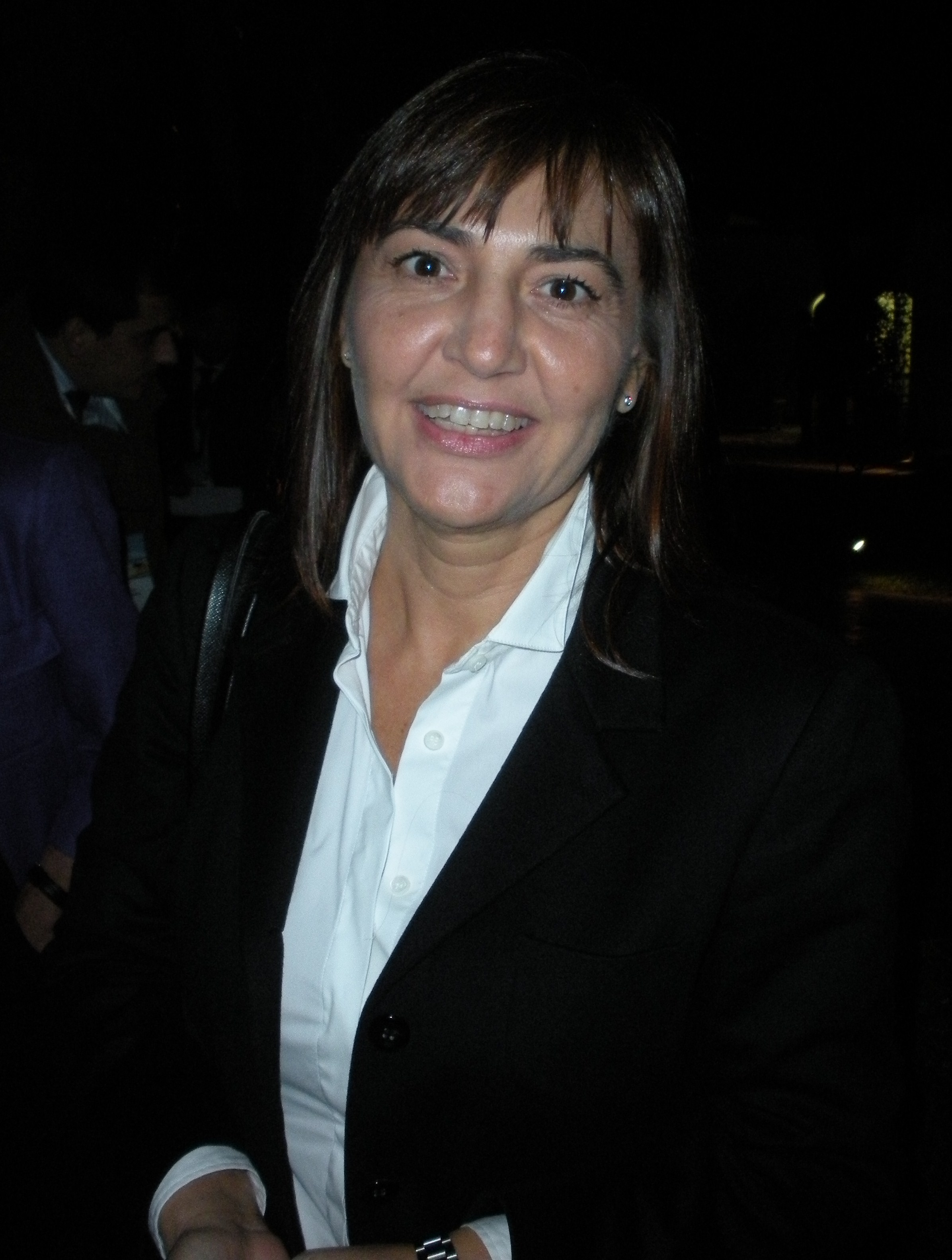 Renata Polverini, italian trade unionist.